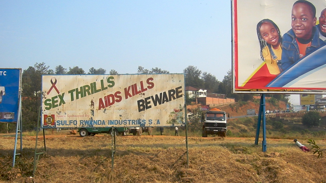 Aids Kills sign in Rwanda